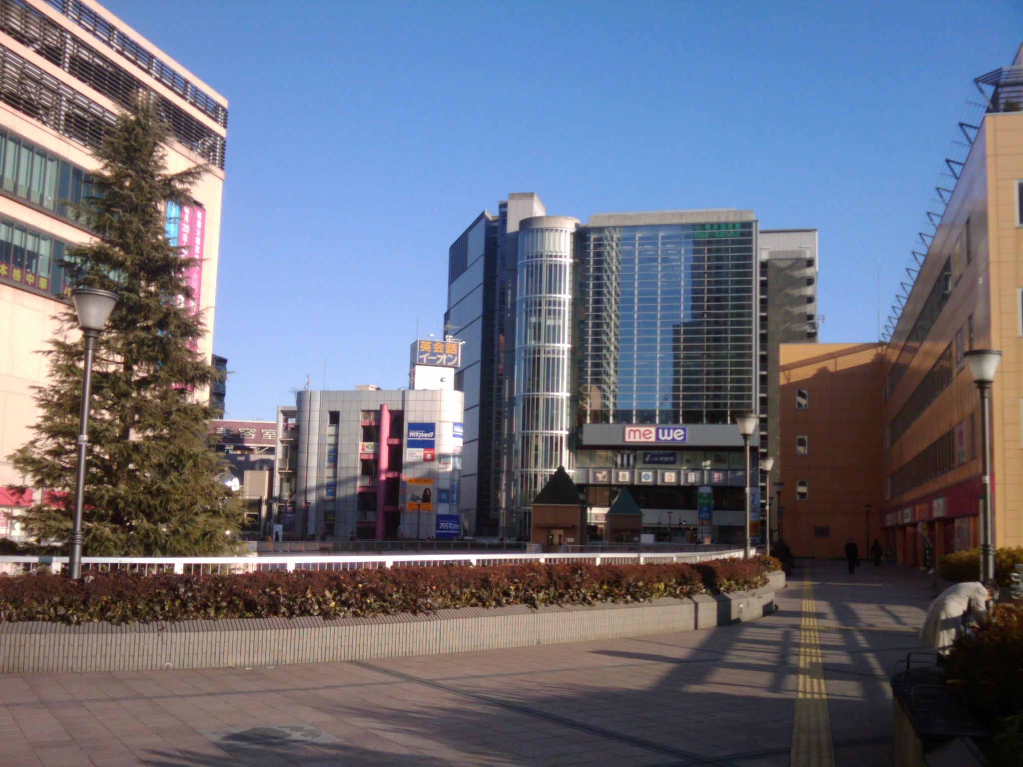 mewe in front of Hashimoto station north exit.